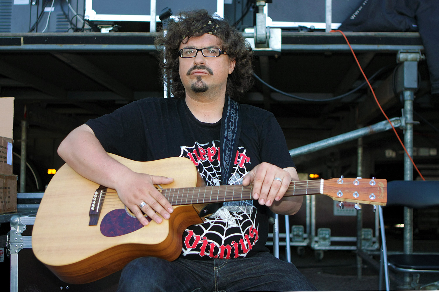 Musician Aleksandras Makejevas